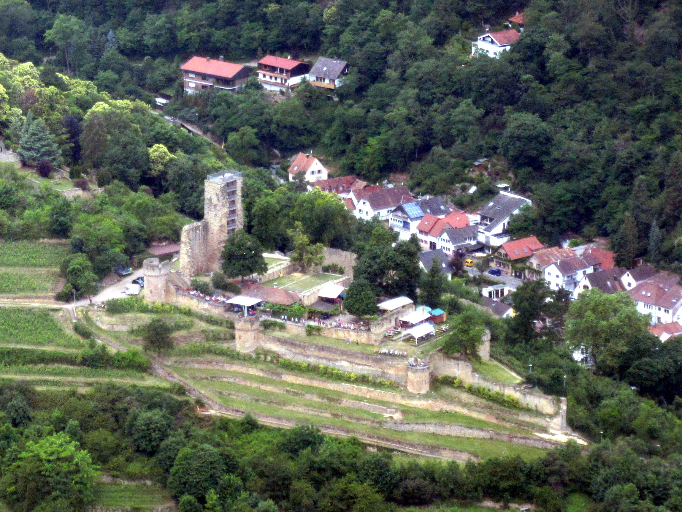 Wachtenburg, Wachenheim, view from a airplane